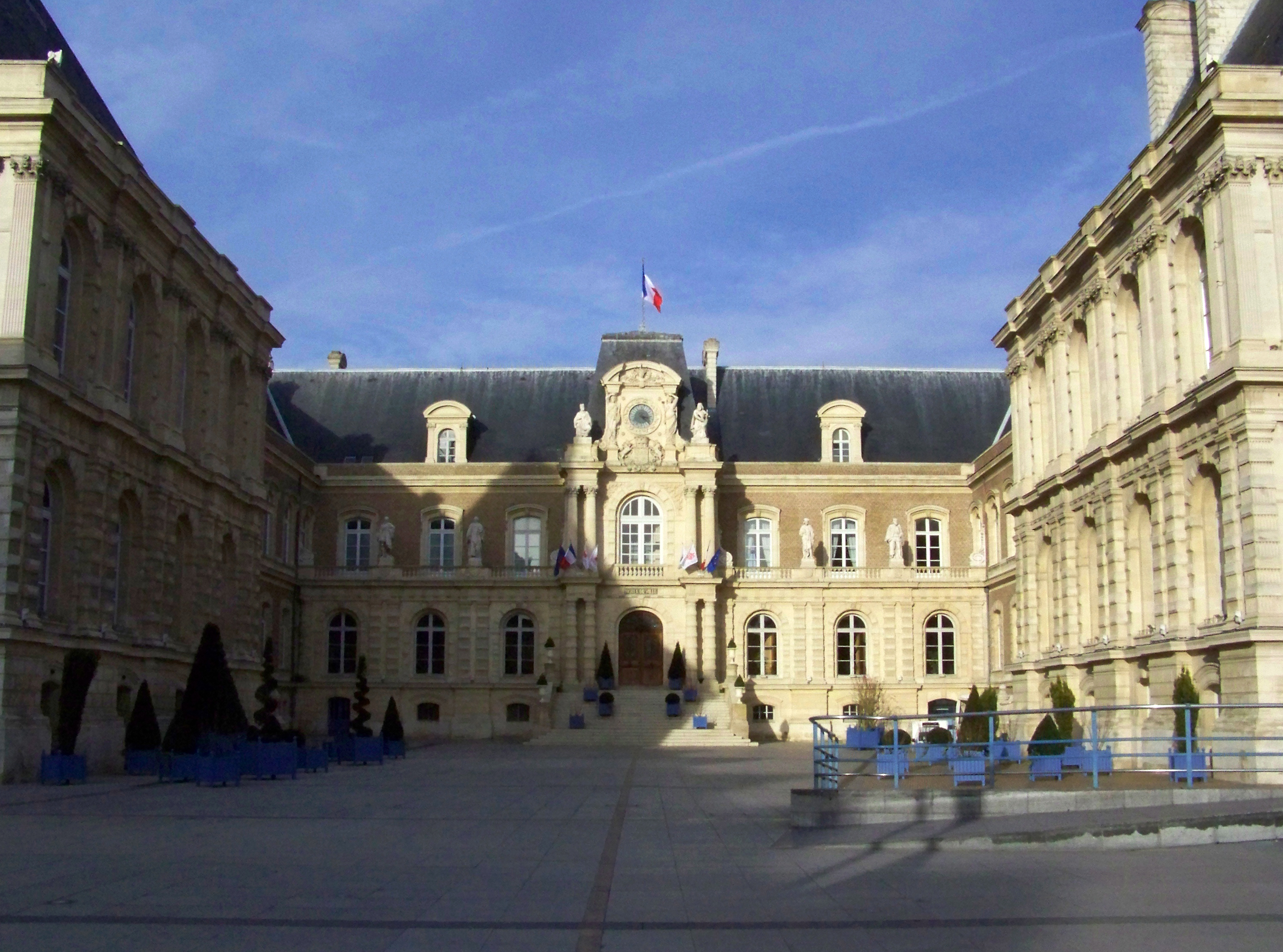 Amiens city hall, Amiens, France